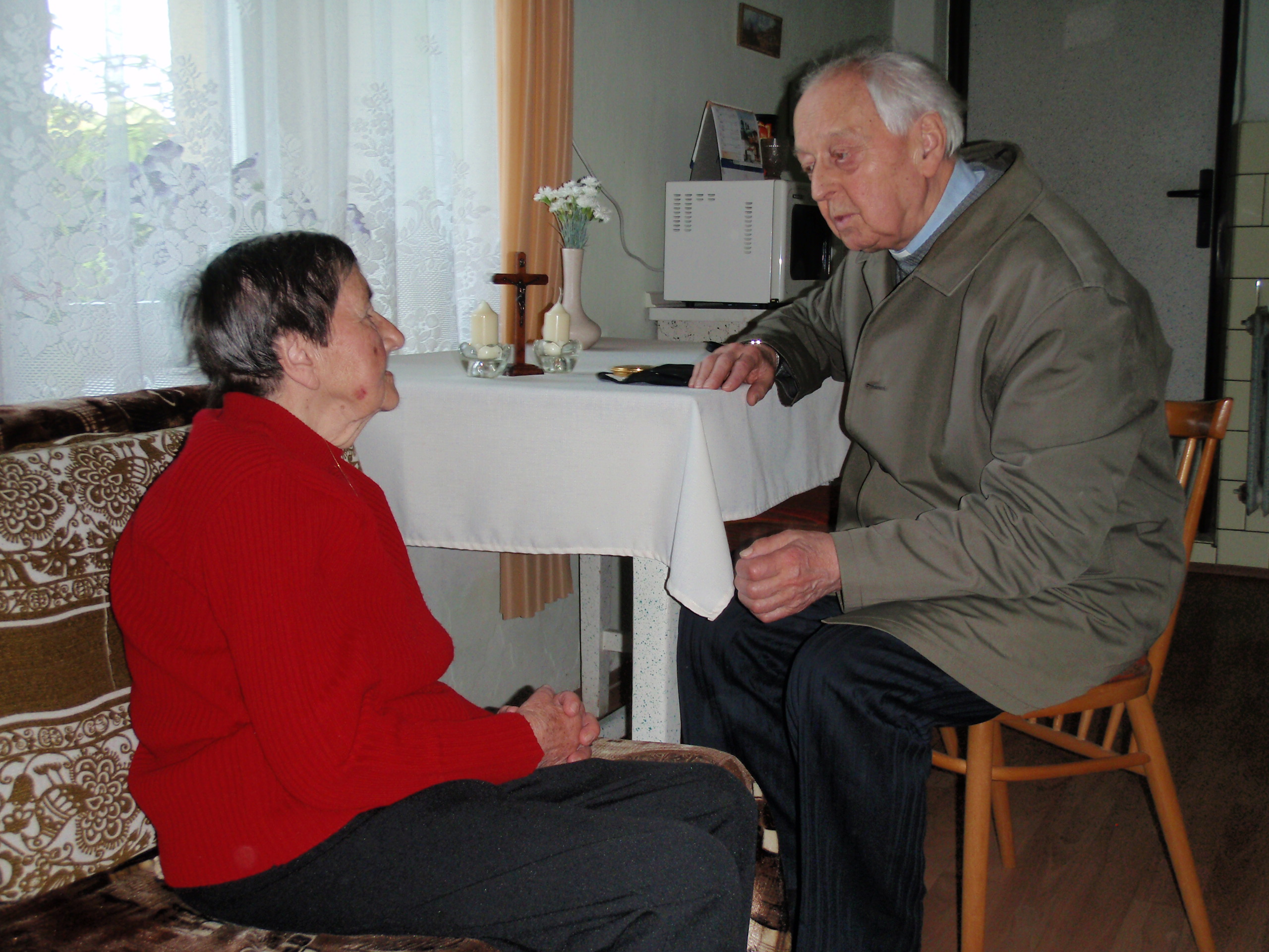 Josef Valerián discussing with old Lady.